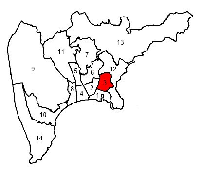 Location of canton of Nice-3 in the city of Nice, Alpes-Maritimes, France.